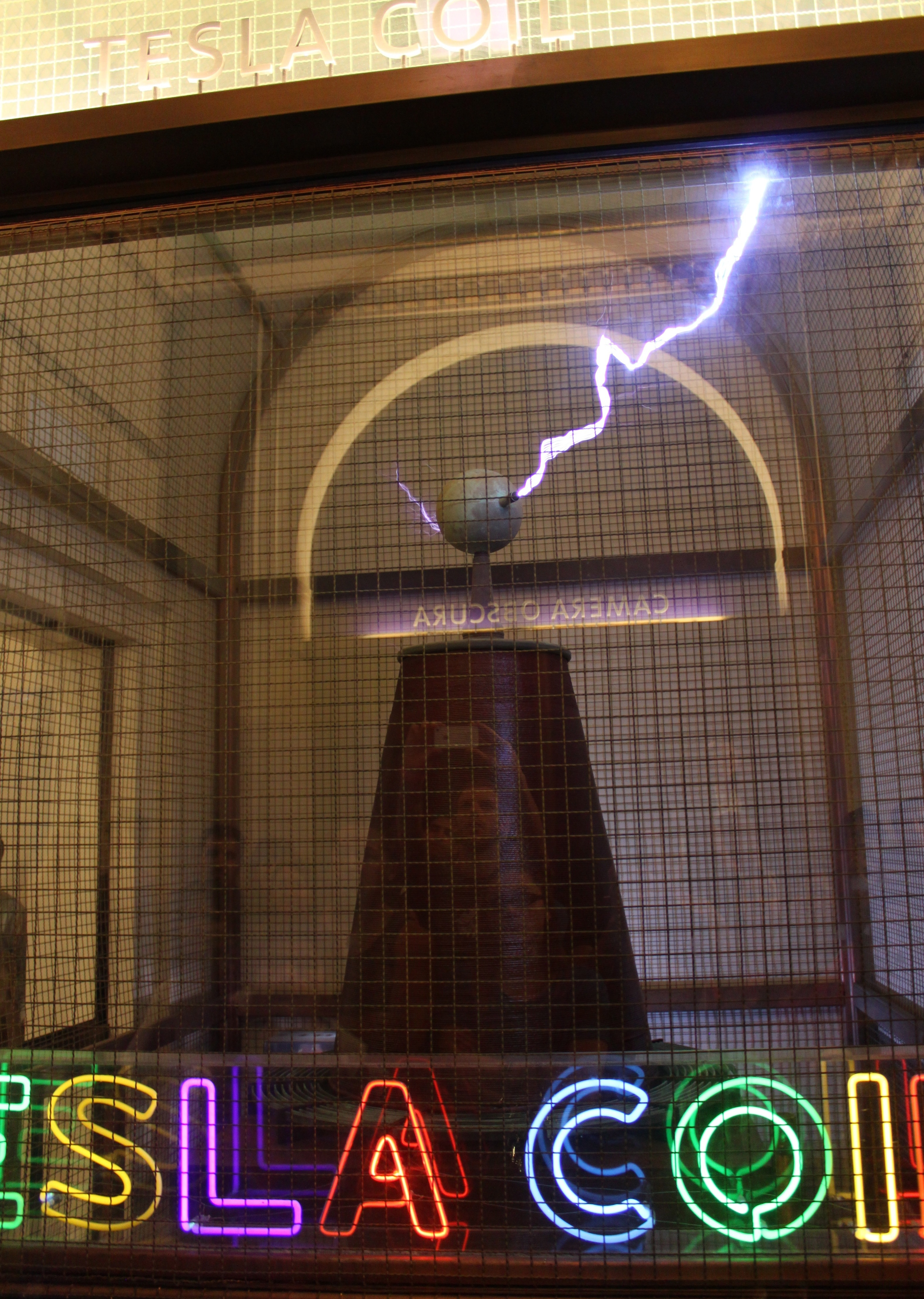 Large Tesla coil on display at Griffith Observatory in Los Angeles, CA. The coil itself is 48 in. high, 36 in. diameter at base narrowing to 18 in. diameter at top, with a 12 in. ball capacitive electrode mounted on top. This well-known coil is one of the oldest entertainment Tesla coils still in use. It was originally one of a pair of identical coils built in 1910 by Earle Ovington a manufacturer of high voltage medical coils who was a friend of Nikola Tesla. They were first displayed at the December Electrical Show at Madison Square Garden, New York City. At the show they were billed as the "Million Volt Oscillator". Installed in the balcony, on every hour the lights in the hall would dim for a spectacular display of 10 foot sparks between the two coils. Ovington gave the coils to Dr. Frederick Finch Strong, an occultist and one of the most well known proponents of electrotherapy, who used them to treat illnesses in his patients. In 1937 Strong donated them to the Griffiths Museum of the city of Los Angeles. The museum didn't have room to display them both and sold one of the coils. The other one, above, has been in continuous use ever since. It was estimated by a General Electric engineer that it produces 1.2 million volts.